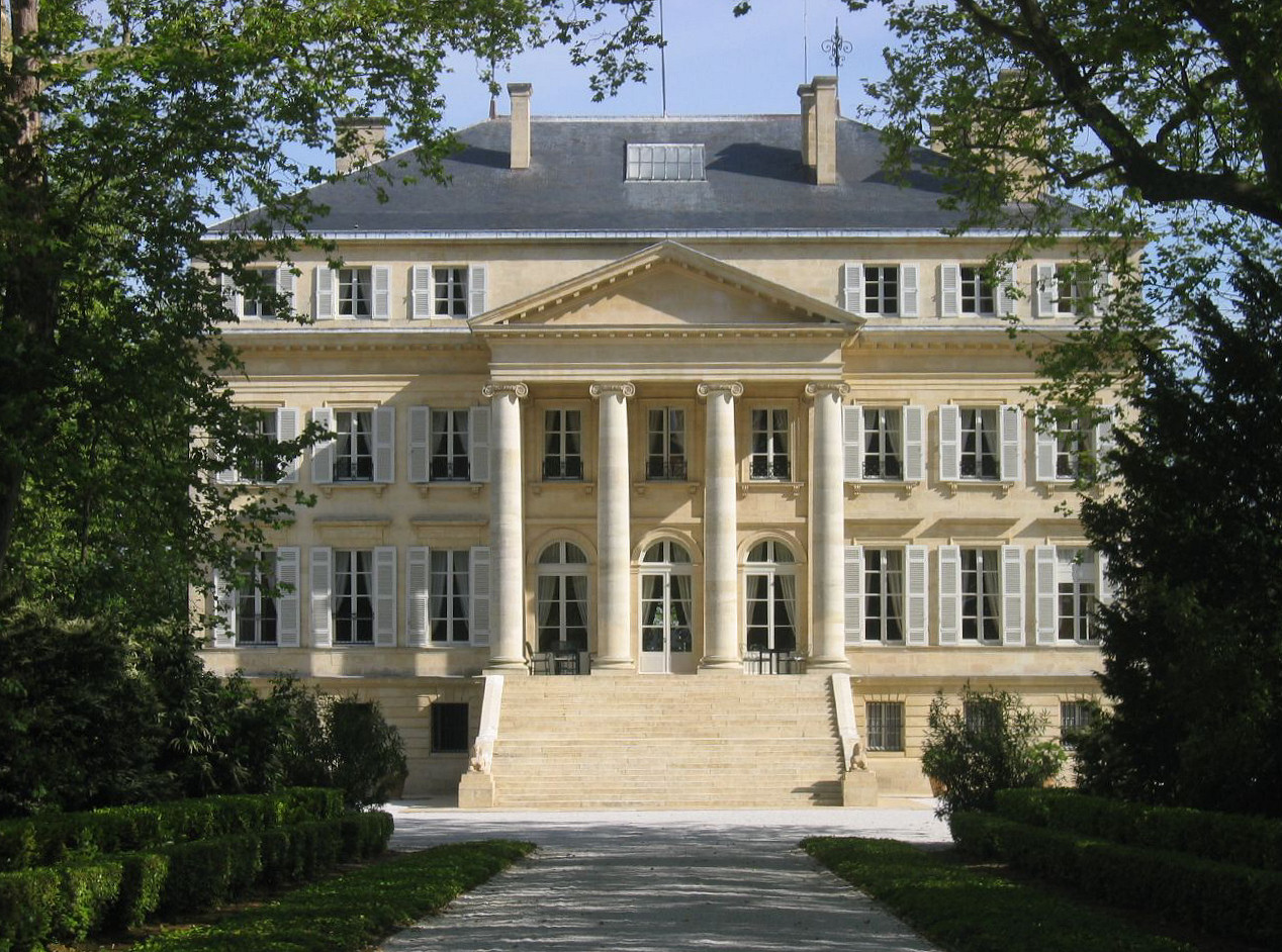 Image of the exterior of the Bordeaux wine estate Chateau Margaux.